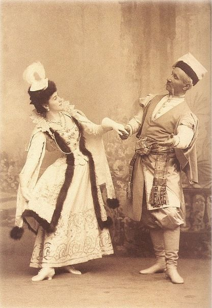 Mathilde and Feliks Kschessinski in Mazurka dance. Benefice performance of F. Kschessinski celebrating 60 years of his ballet career, February 8th, 1898.